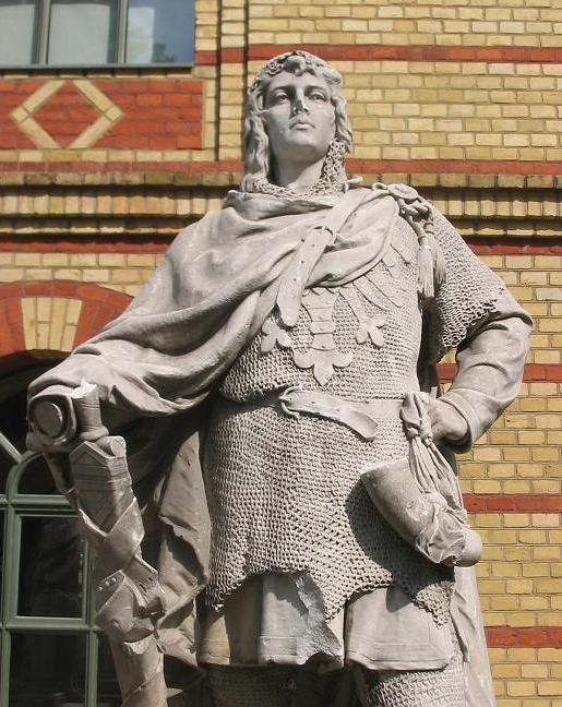 Central statue of the monument group № 2 in the former Siegesallee in Berlin commemorating the second Margrave of Brandenburg, Otto I (ca. 1128-1184). Sculptor: Max Unger. The statue was unveiled on 22 March 1898. Shown here in the Spandau Citadel in August 2009, before its conservation-restoration.